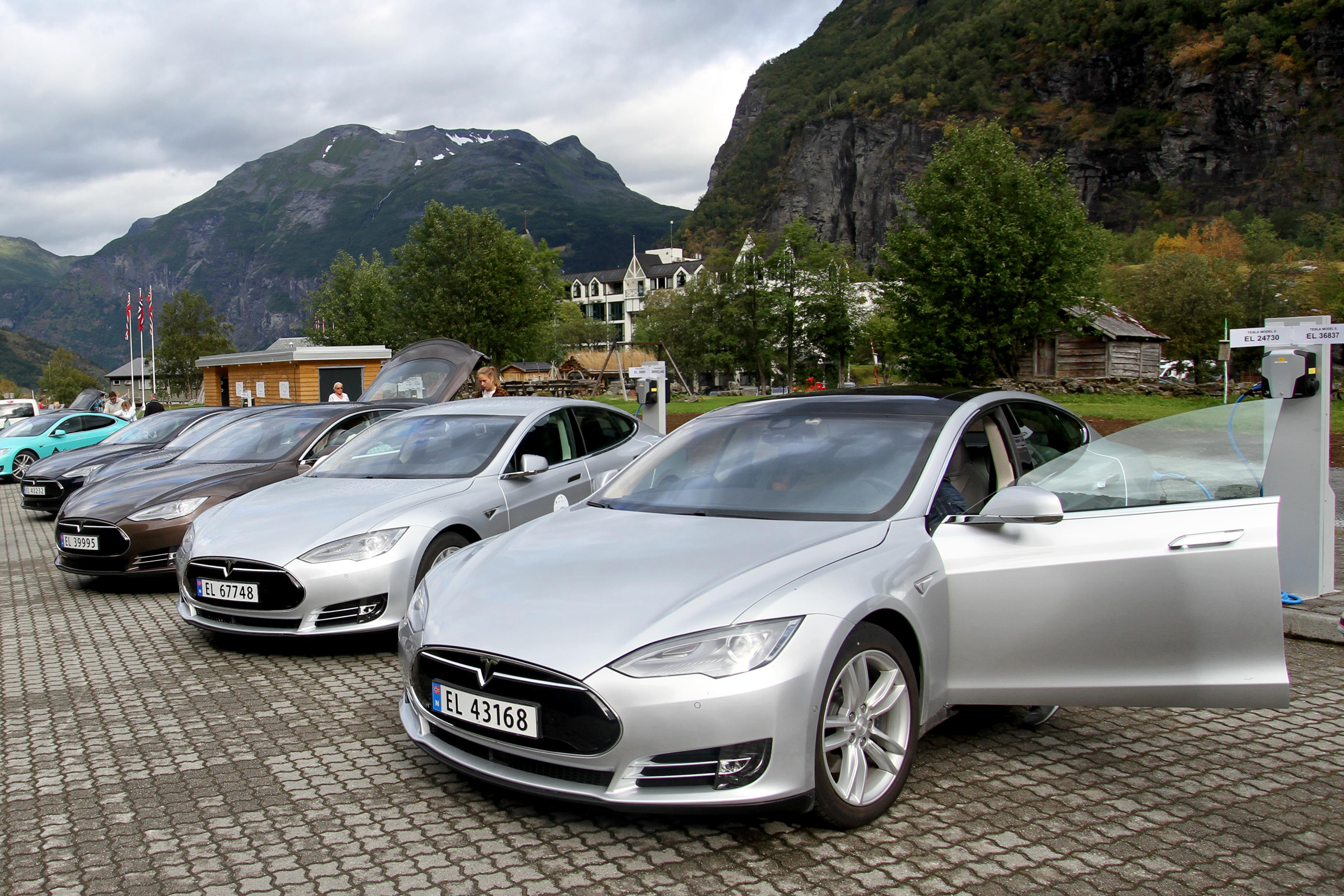 Five Tesla Model S all-electric cars participating in the EV Festival in Geiranger, Norway